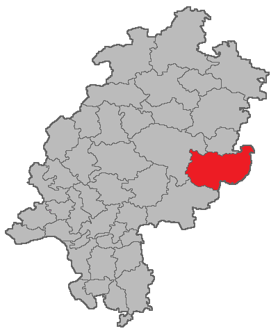 Map of the district court Fulda in Hesse